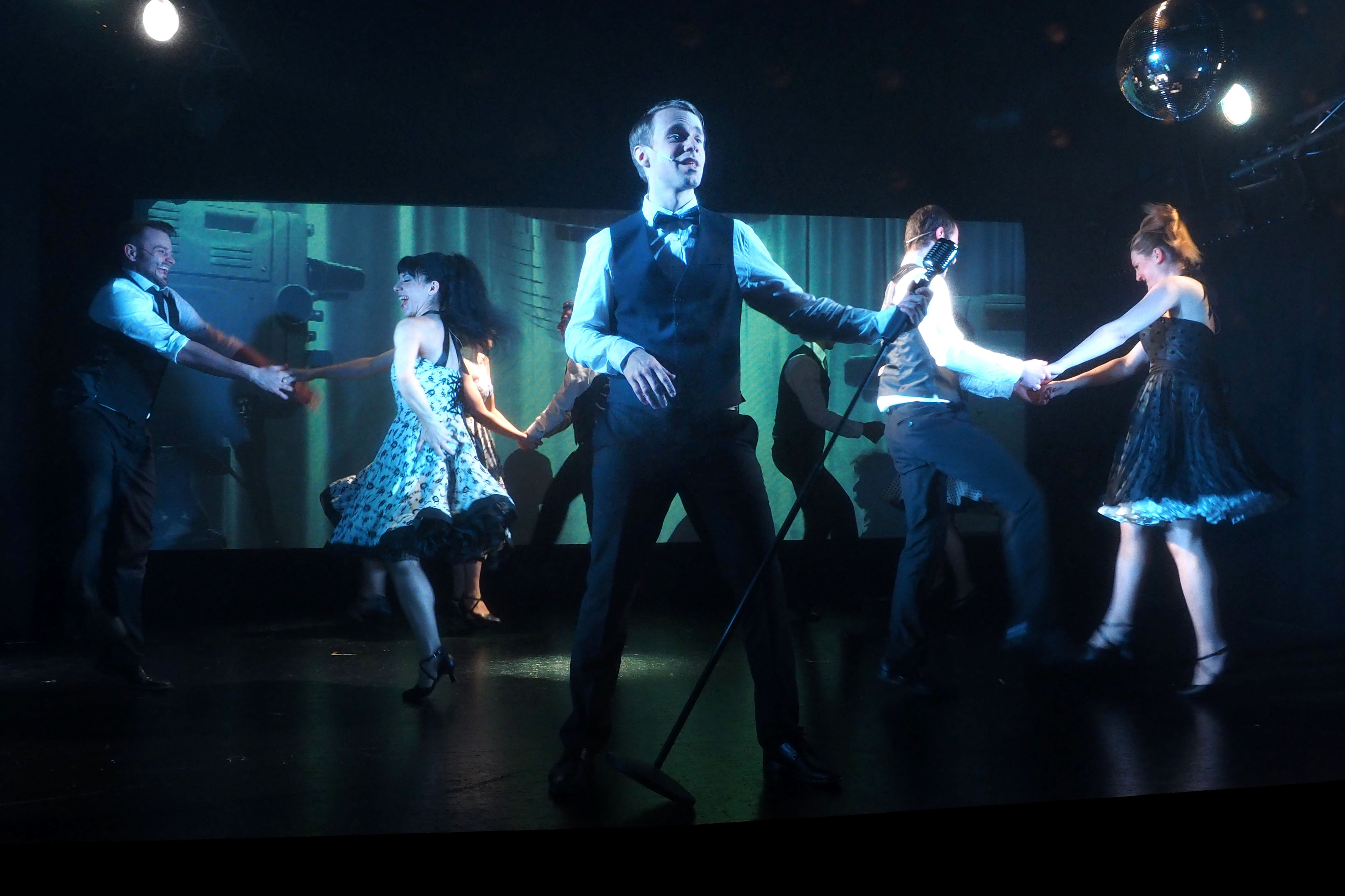 Musical Summer of Love